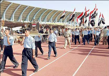 Handover ceremony of power for Al Muthanna province in July 2006. Al Muthanna became the first province to take full independence from the coalition forces in Iraq. The ceremony took place at the Football stadium and was attended by the Prime Minister Nouri Al Maliki and commanders of the coalition forces in the province